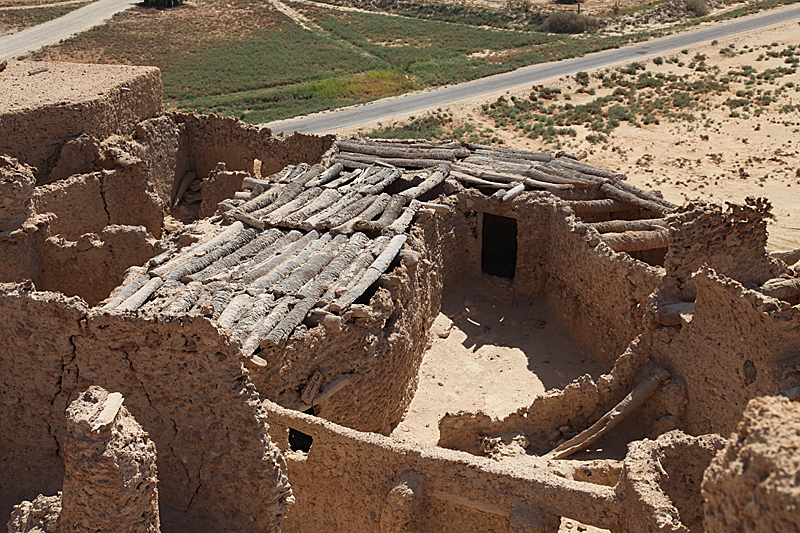 Village hill Qarat Umm el-Sugheir, Siwa depression, Egypt